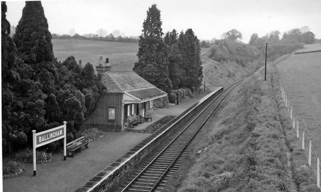 Ballingham Station, Near to Carey, Herefordshire, Great Britain. View towards Hereford, on line from Gloucester via Ross-on-Wye (closed 2/11/64).